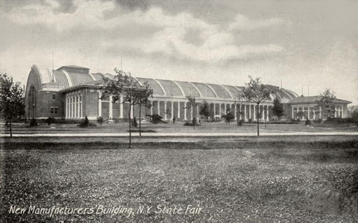 New York State Fair - Manufacturing and Liberal Arts building in Syracuse, New York 1915